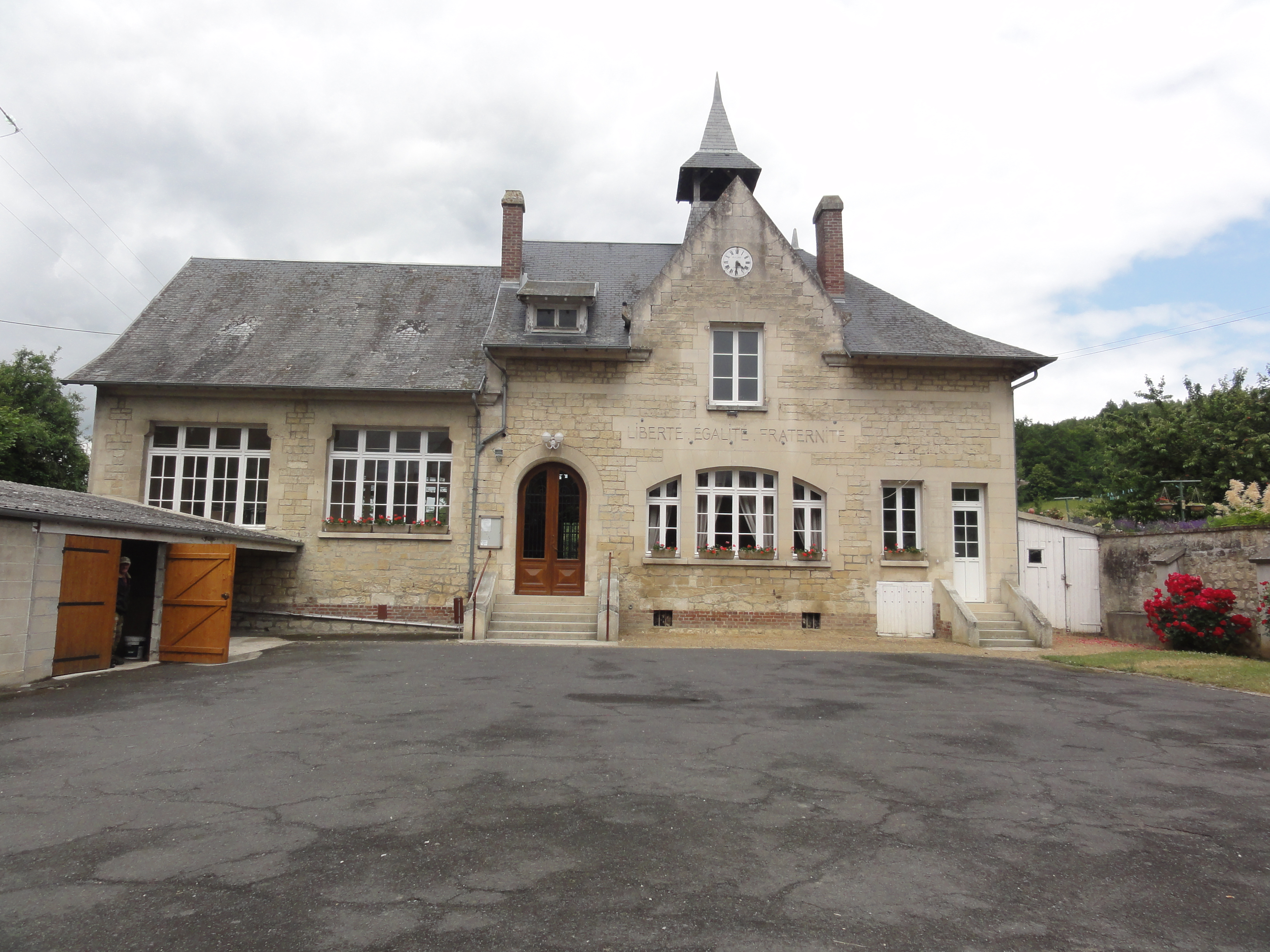 Coucy-la-Ville (Aisne) mairie